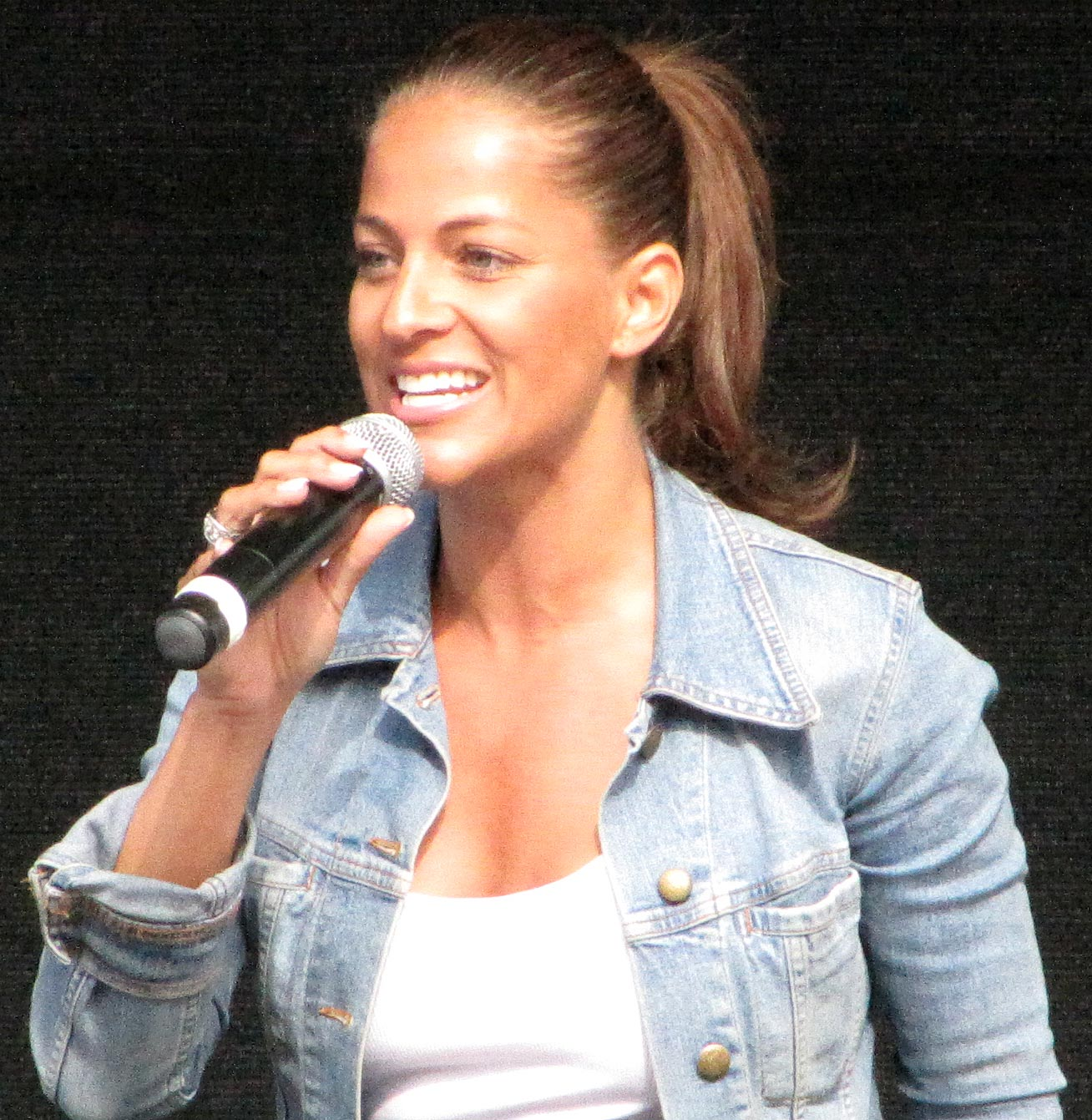 The Swedish singer Denise Lopez performing at Stockholm Marathon.